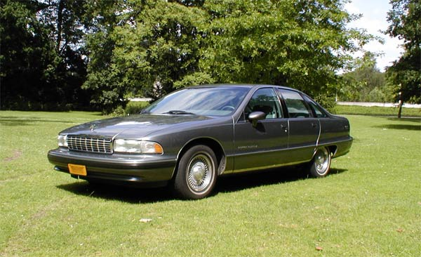 1991 Chevrolet Caprice Classic